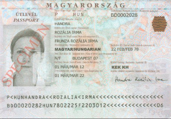 Biodata page of the Hungarian biometric passport (first issued on 29 August 2006).